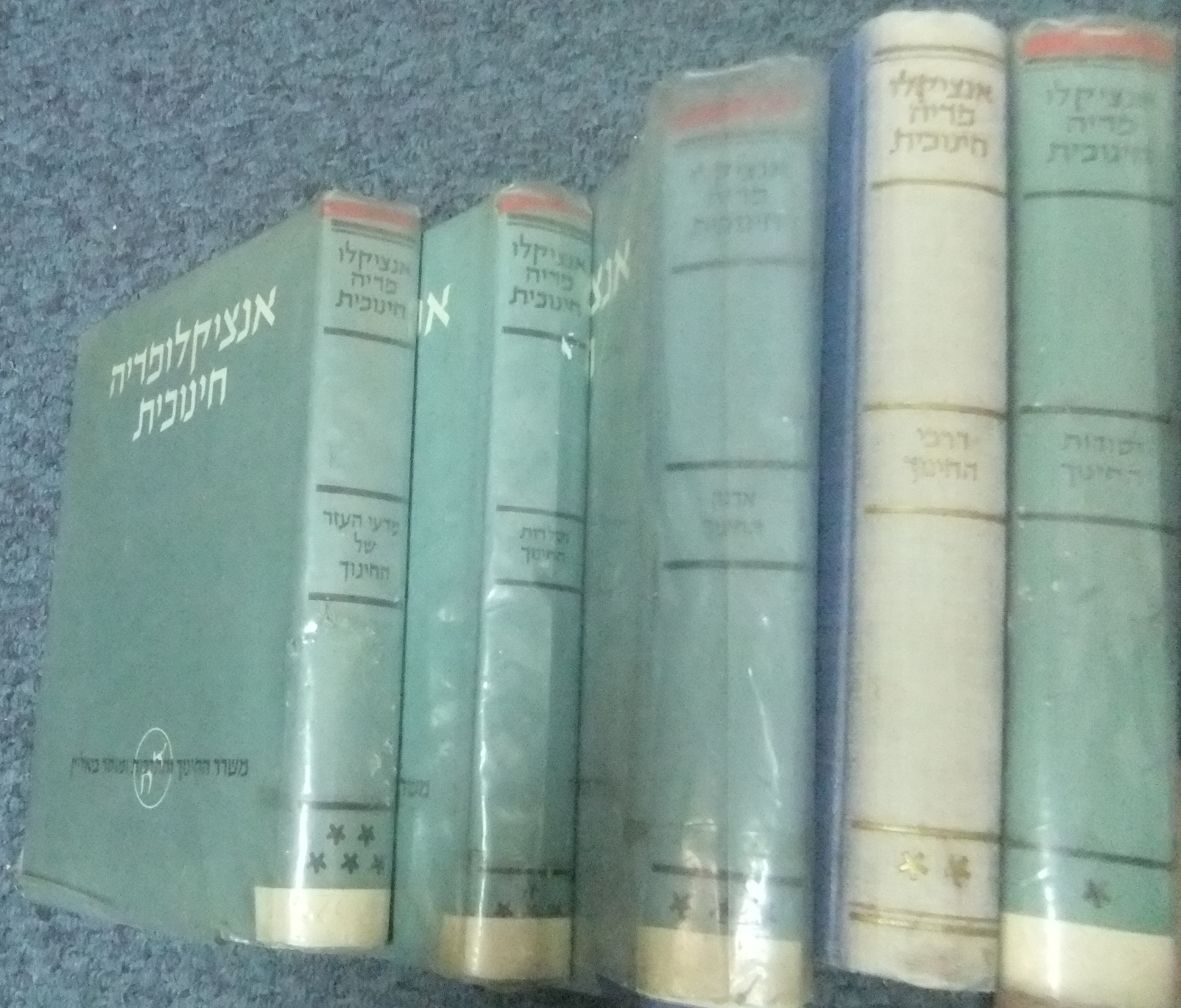 Educational encyclopedia in Hebrew, five volumes, 1959-1969